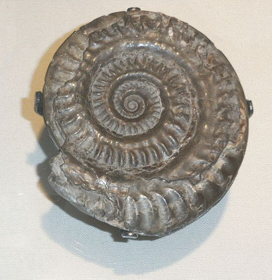 Hildoceras bifrons (Bruguière 1789) Lower Jurassic Whitby, Yorkshire, England